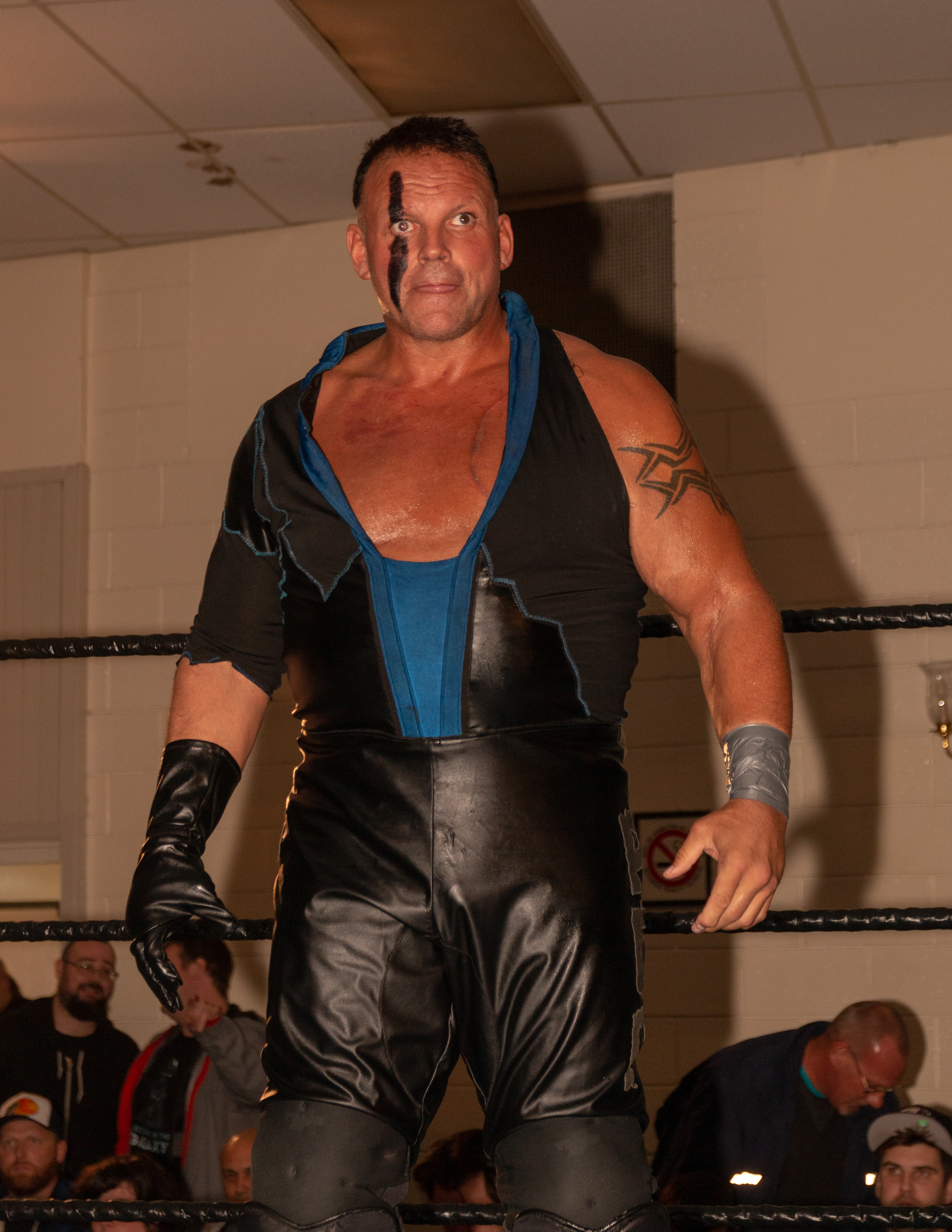 Carl Ouellet, as PCO - at an Alpha -1 show in Hamilton, ON